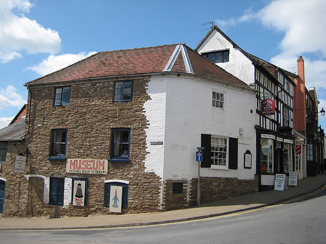 Teddy Bears of Bromyard Museum On the corner of Broad Street and Sherford Street. A large plastic dalek could be seen through the window - not quite as cuddly as a teddy bear.